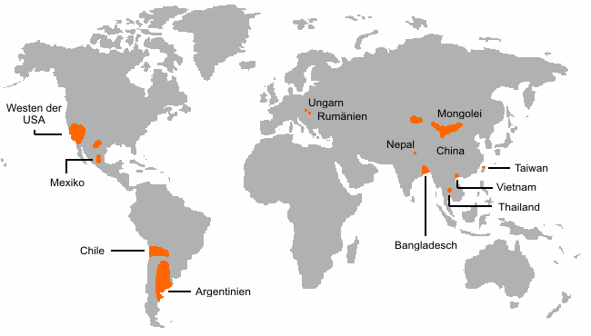 Arsenic risk areas worldwide Data source: "Arsenic contamination in south-east asia region: Technologies for arsenic mitigation" by M. Feroze Ahmed of the World Bank Group's "Water Week 2004" forum. Created with Gimp Creator: Thiesi